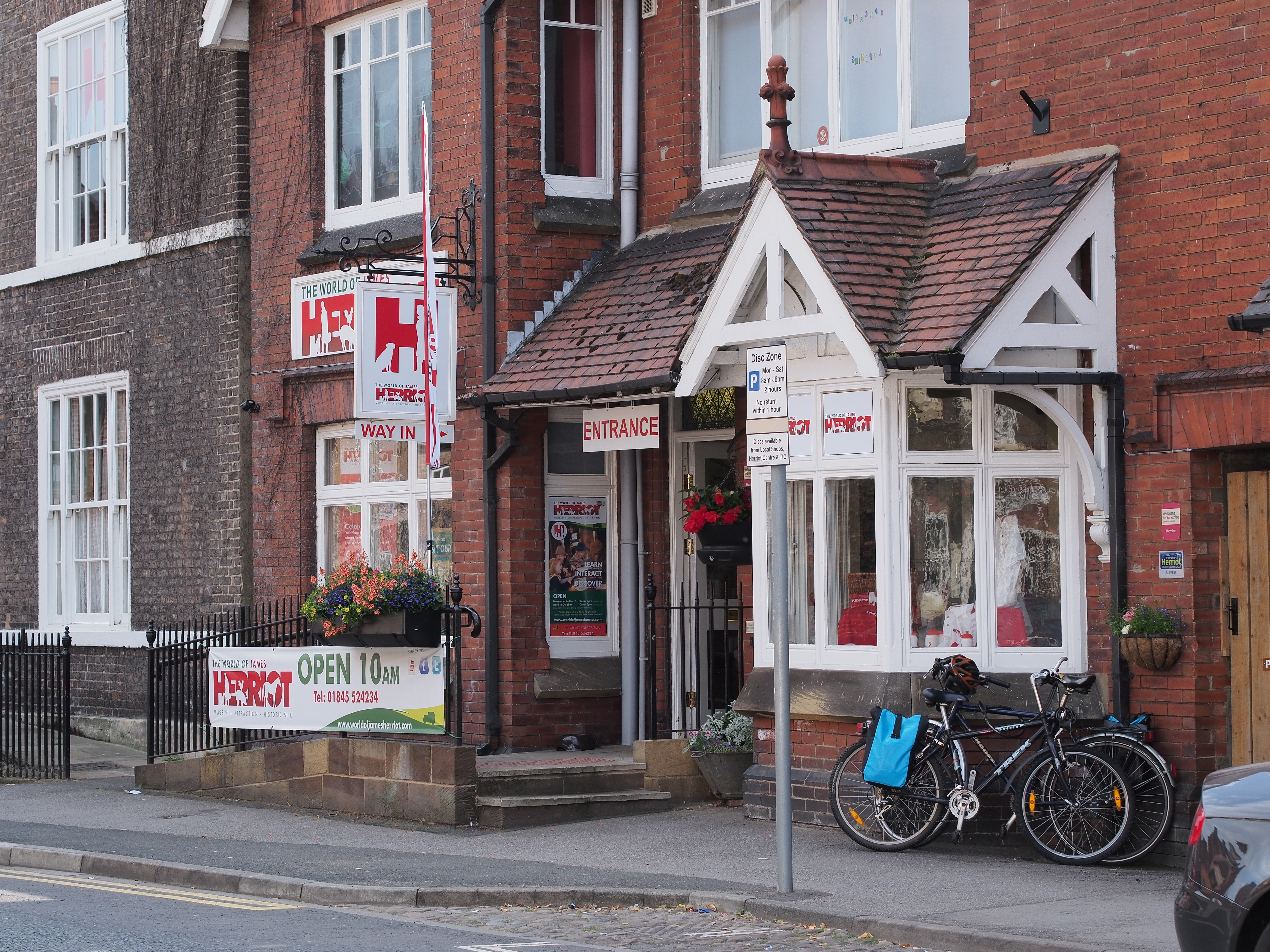 Entrance to „The World of James Herriot“, Thirsk